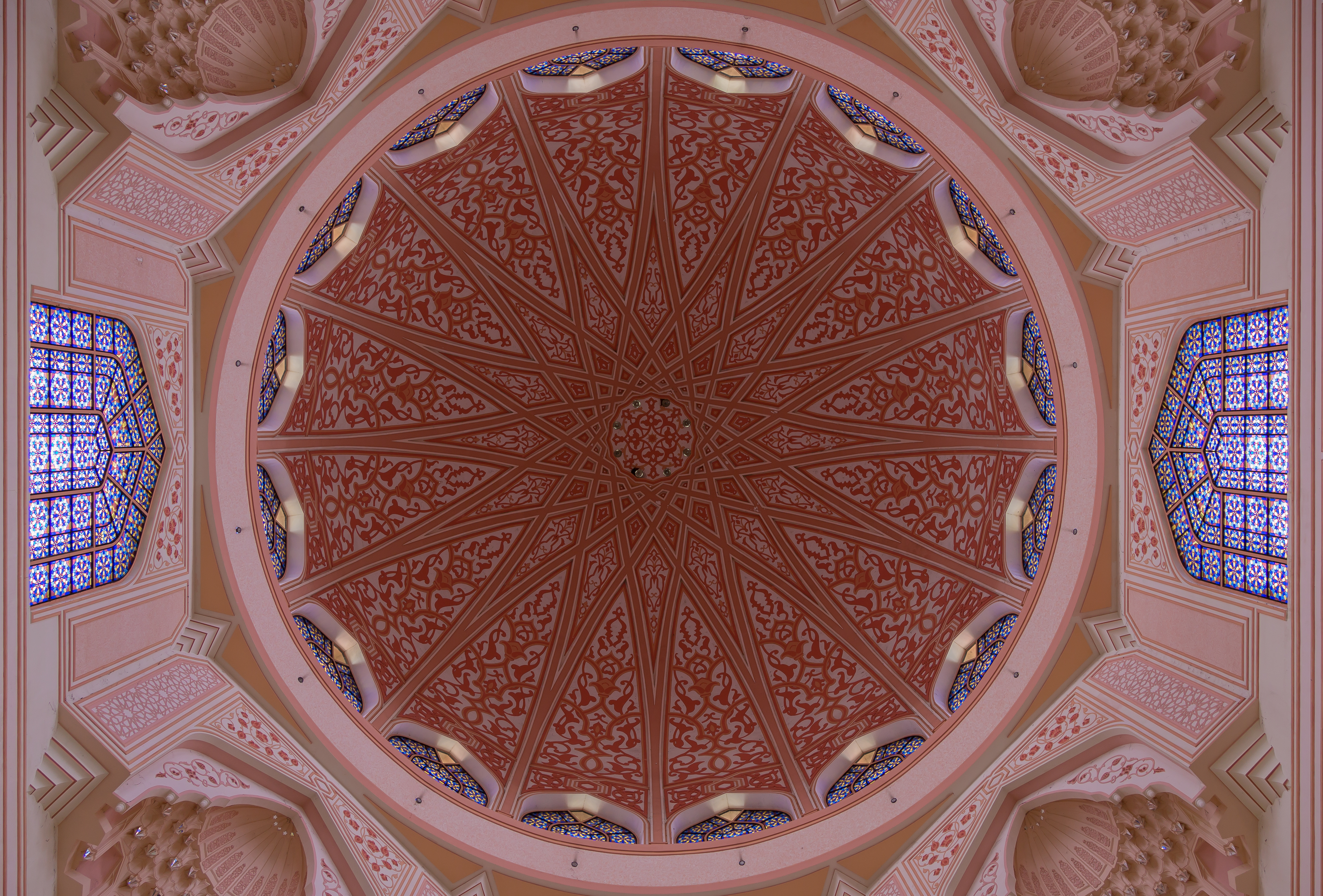 Putrajaya, Malaysia: Ceiling of Putra Mosque